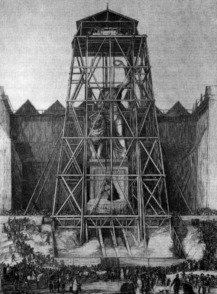 Assembly of Bavaria statue at Munich 1850, etching.